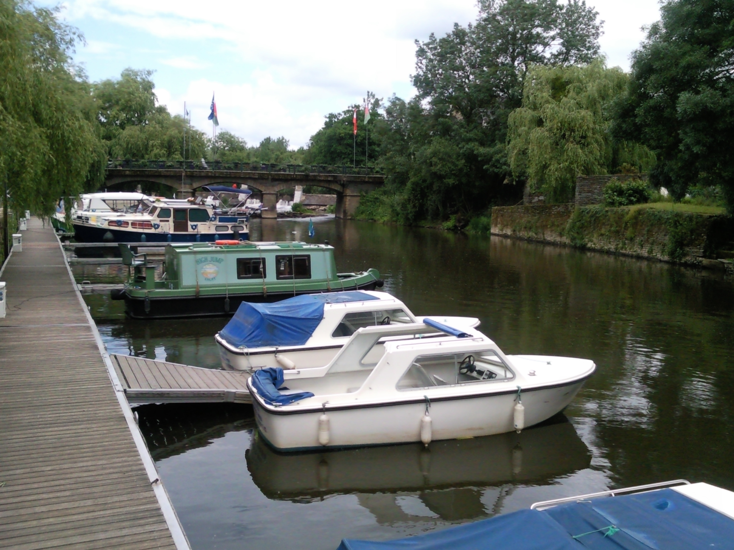 La Gacilly, France, marina